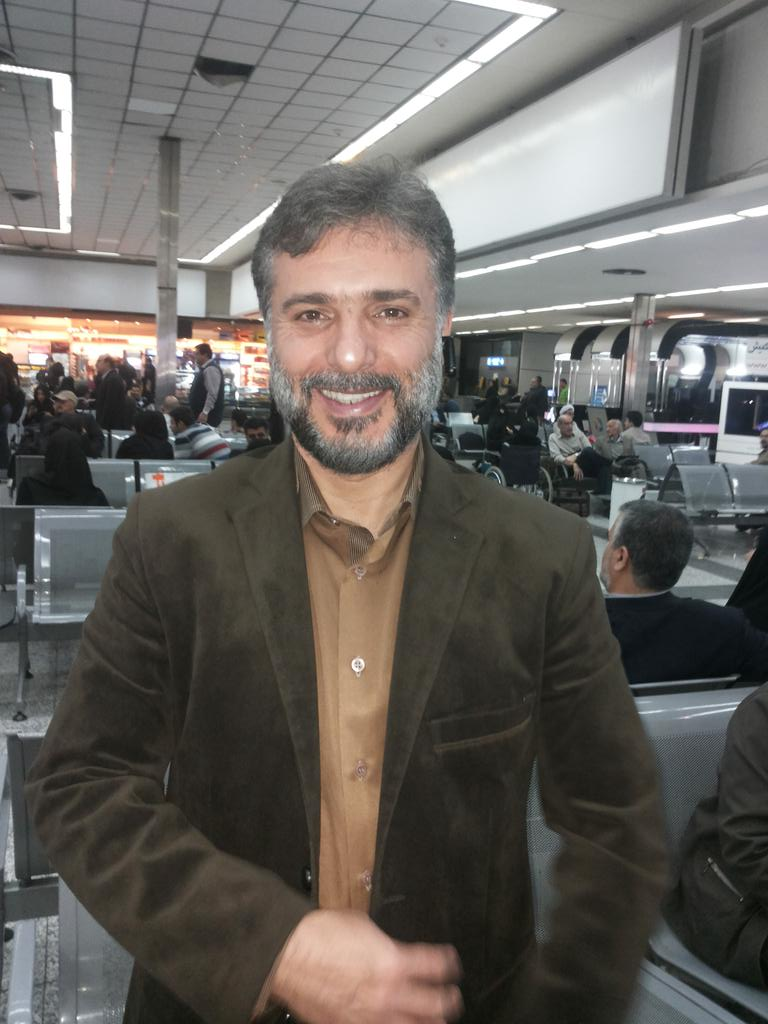 Seyed Javad Hashemi Pourasl is an Iranian actor,with special thanks for Reza Eskandari